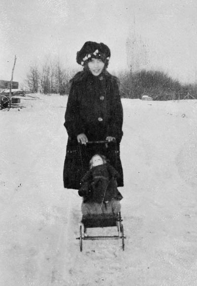 Title / Titre : Toba Cohen, Lipton Colony, Saskatchewan / Toba Cohen, dans la colonie de Lipton (Saskatchewan) Creator(s) / Créateur(s) : Louis Rosenberg Date(s) : 1916 Reference No. / Numéro de référence : MIKAN 3367834 Location / Lieu : Lipton, Saskatchewan, Canada Credit / Mention de source : Louis Rosenberg fonds. Library and Archives Canada, C-027462 / Fonds Louis Rosenberg. Bibliothèque et Archives Canada, C-027462